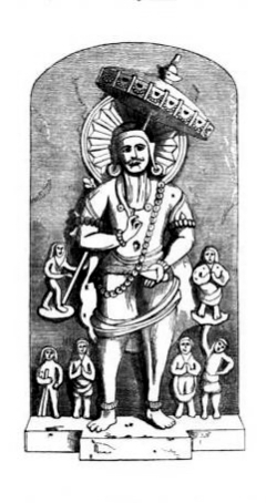 Vanraj Chavda, ruler of Gujarat who ruled from Patan, Gujarat, India in 7–8th century